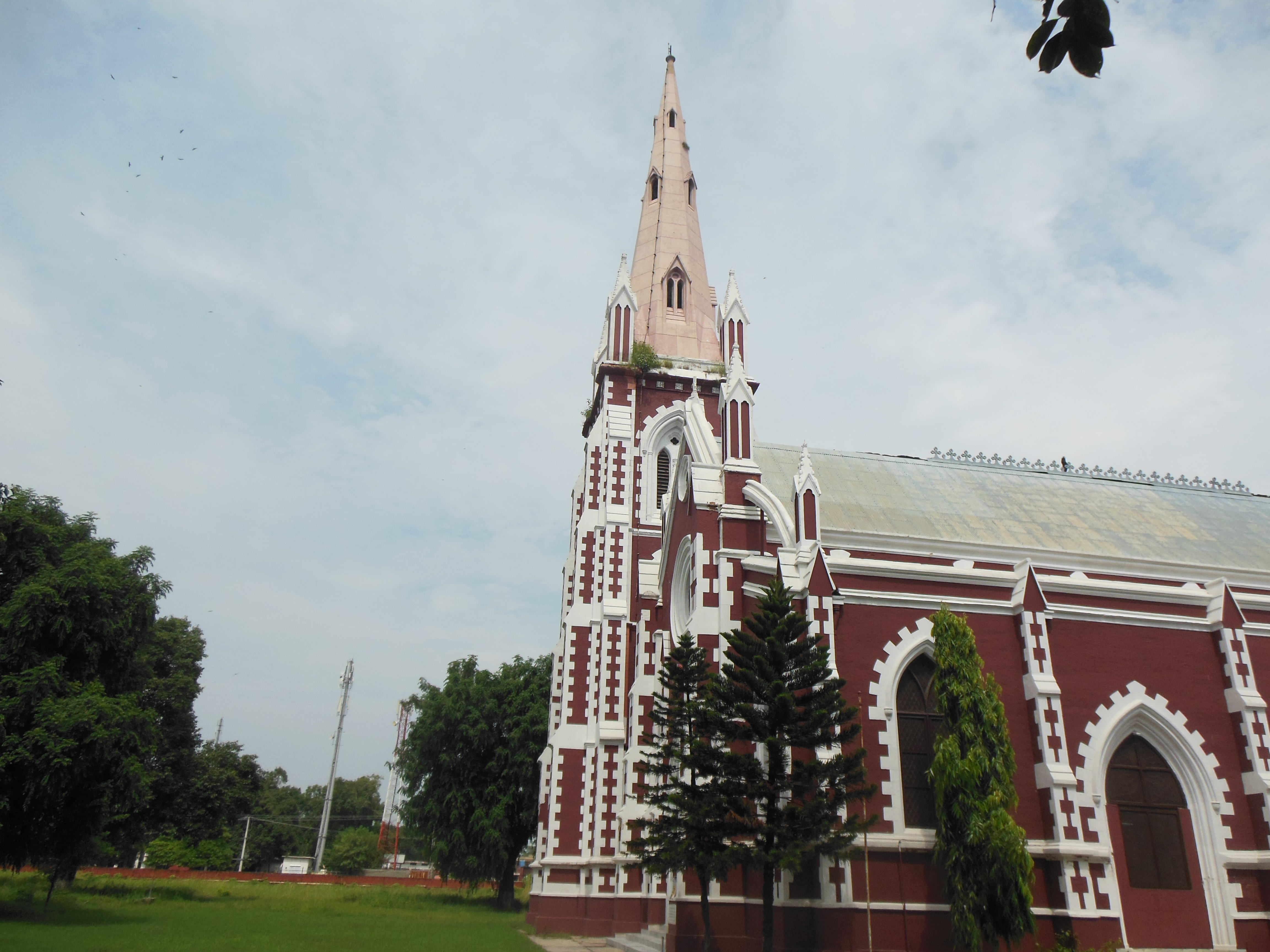 Sialkot Cathedral - Outside of the Sialkot Cathedral located in Sialkot Cantt, Pakistan. This is a photo of a monument in Pakistan identified as the PB-U-60